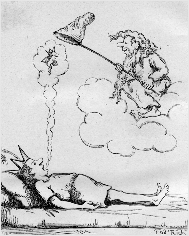 288 illustration from book "La Bible amusante" by Léo Taxil (1882)